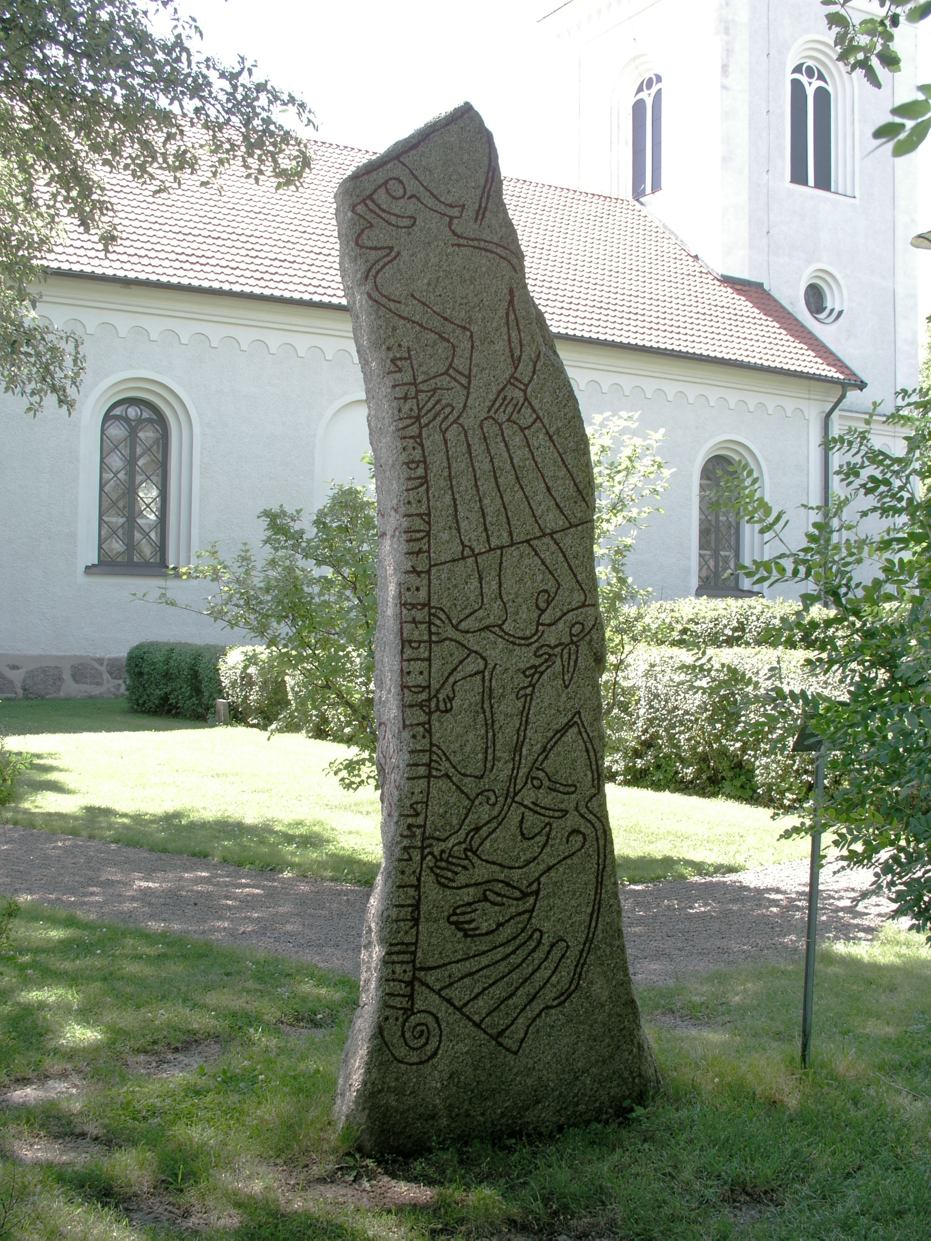 Runestone (Ög 181) at Ledberg Church, Östergötland, Sweden.